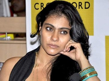 Bollywood actress Kajol